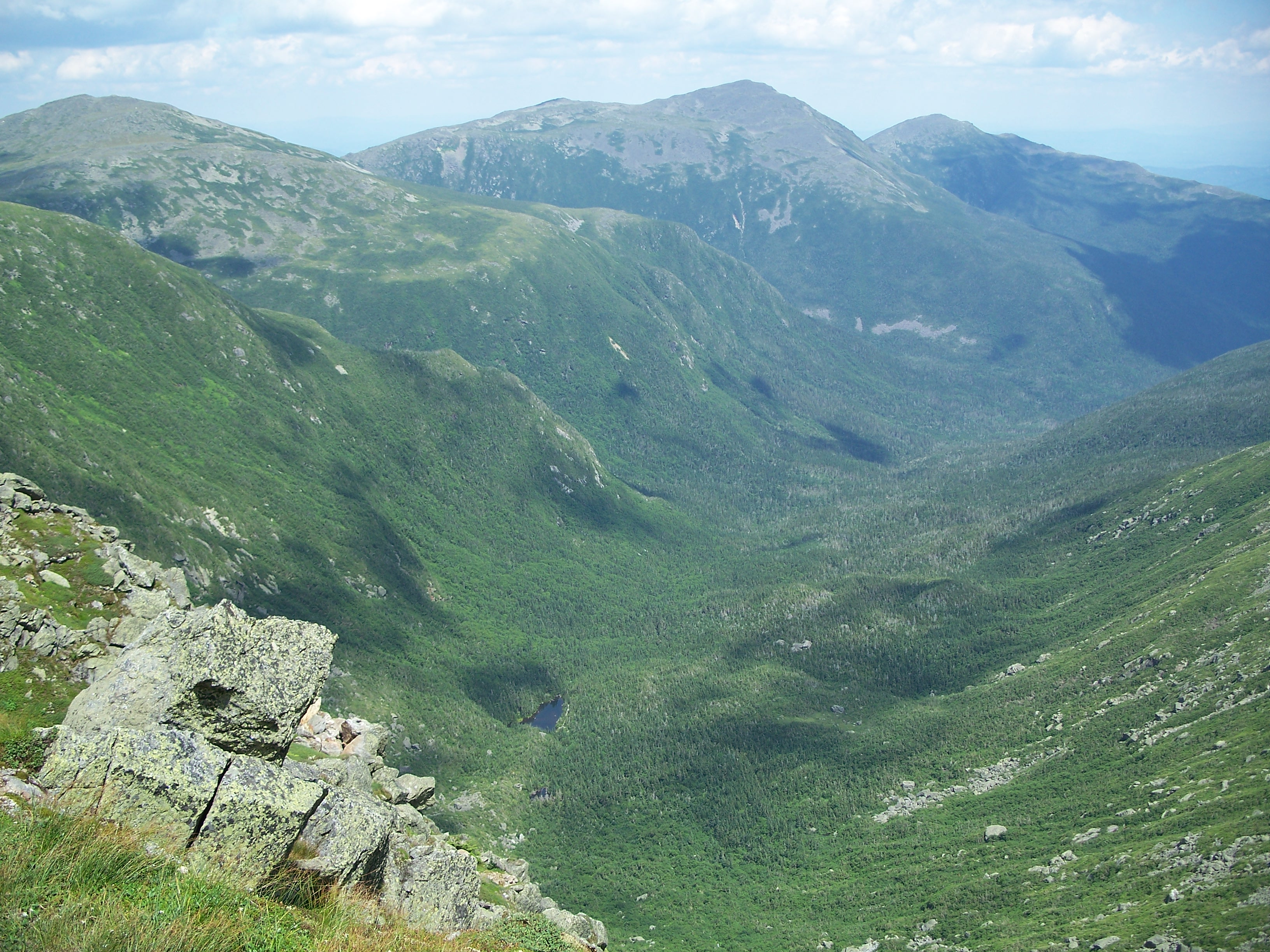 The Great Gulf in New Hampshire's White Mountains below the shoulder of Mount Washington